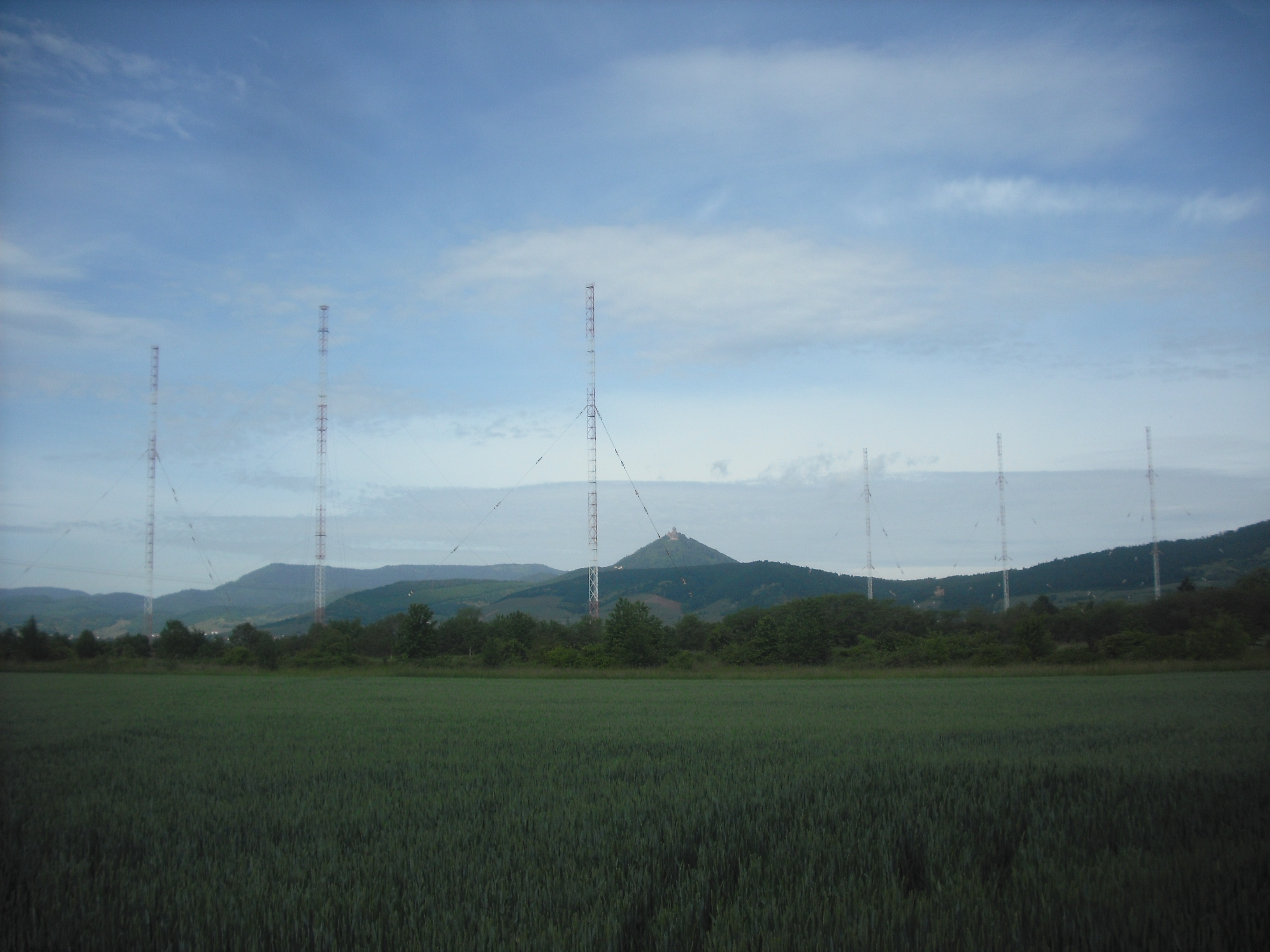 Emetteurs de Sélestat, France.